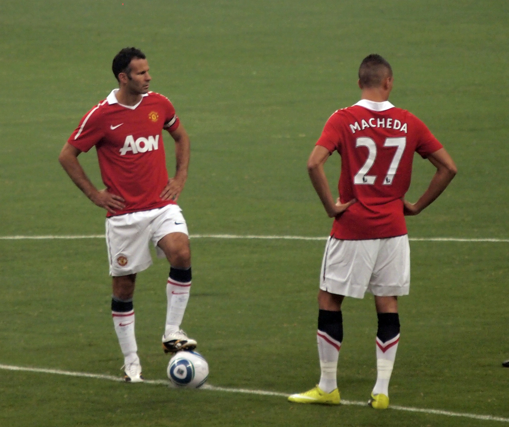 Ryan Giggs and Federico Macheda of Manchester United wait to kick off against the MLS All Stars, July 2010.